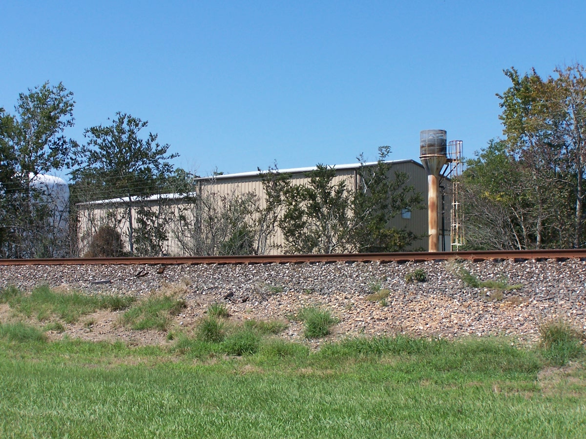 I took the picture. I release to public domain.